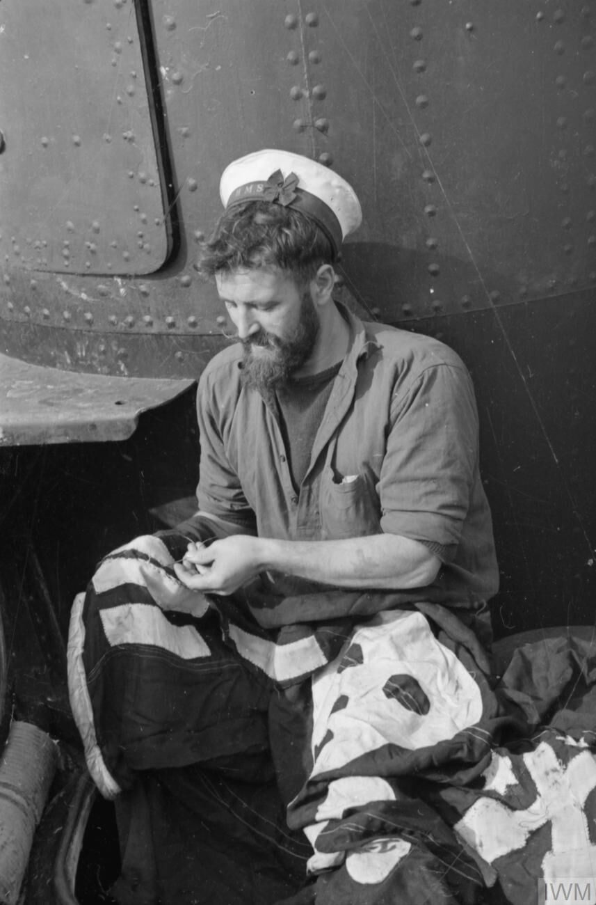 Adding Another Success Bar To Submarine Taku's Jolly Roger. February and March 1943, at HMS Talbot, Malta. One of the crew of the British submarine TAKU sewing another success bar to their Jolly Roger on returning to port after patrol.